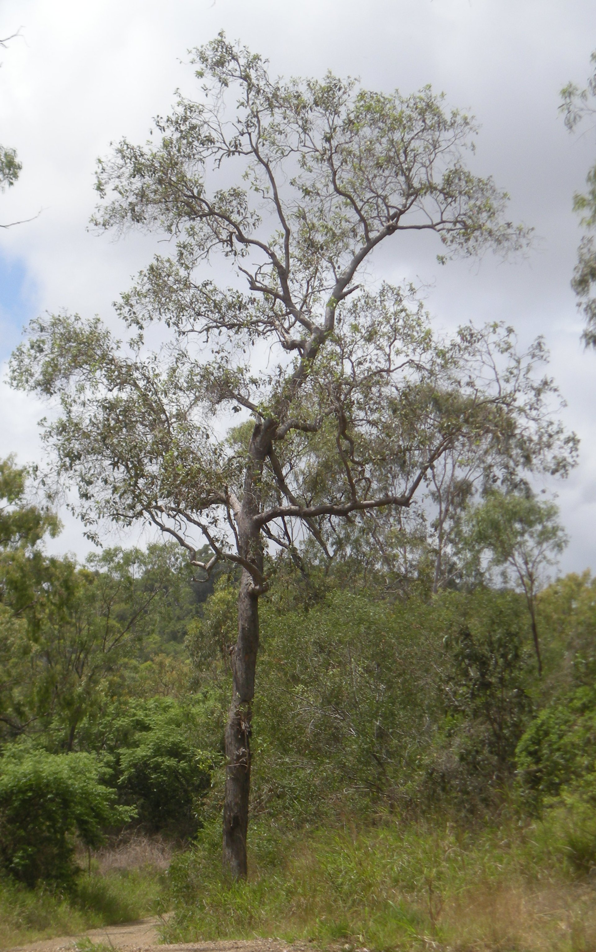 Lophostemon suaveolens tree. Mount Etna Caves National Park, Central Queensland.